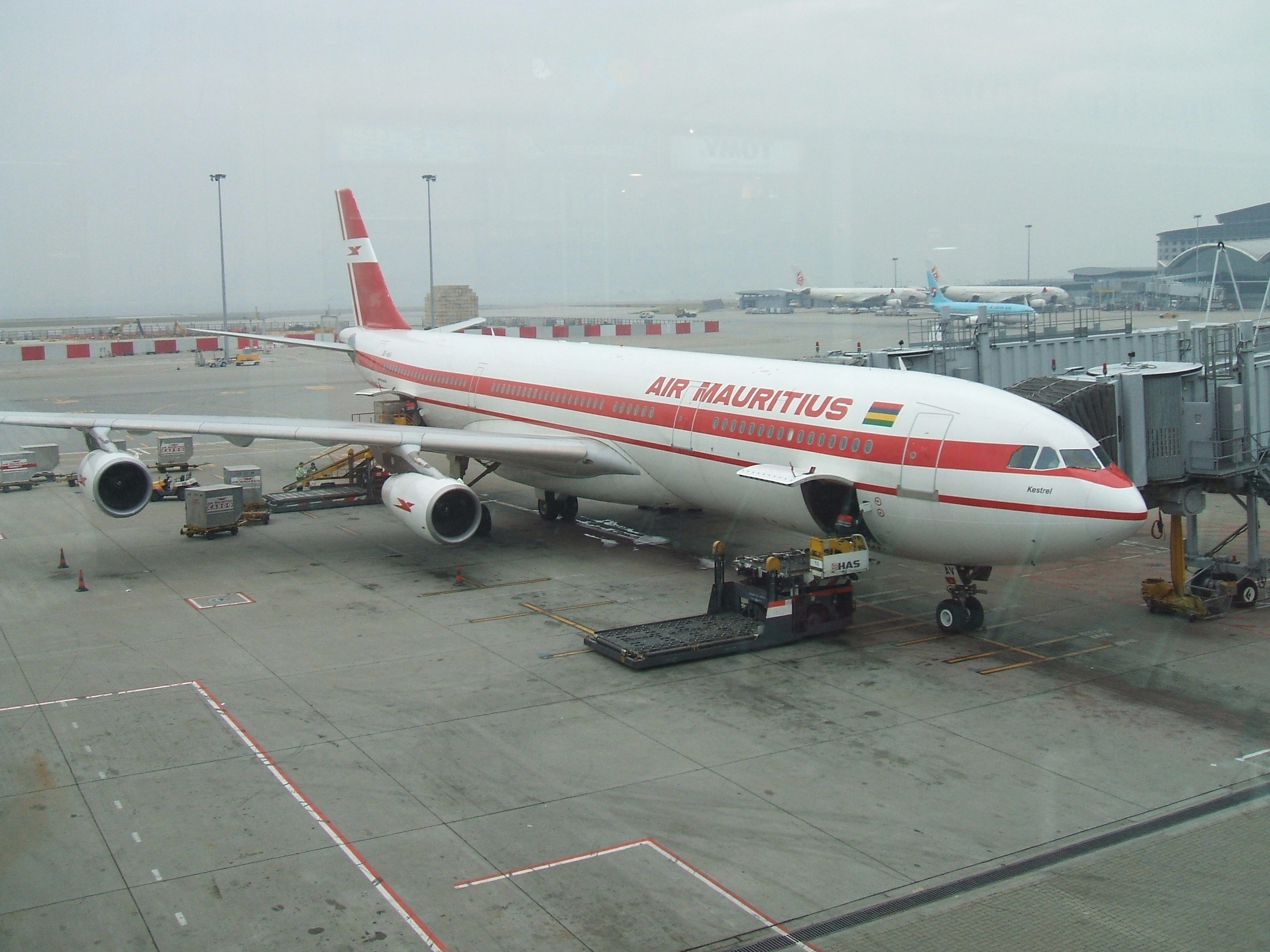 Air Mauritius Airbus A340 "Kestrel" at Hong Kong Airport